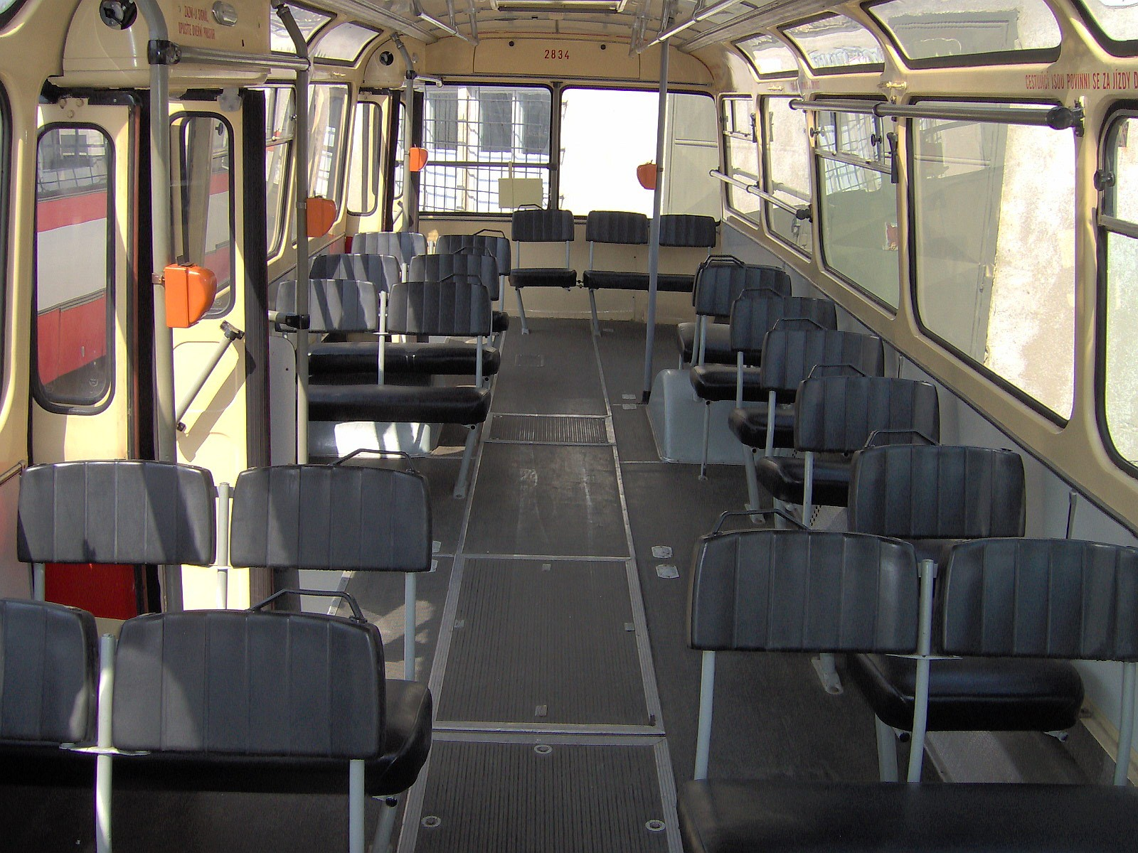 Interior of historical bus Karosa ŠM 11 in Brno, Czech Republic.